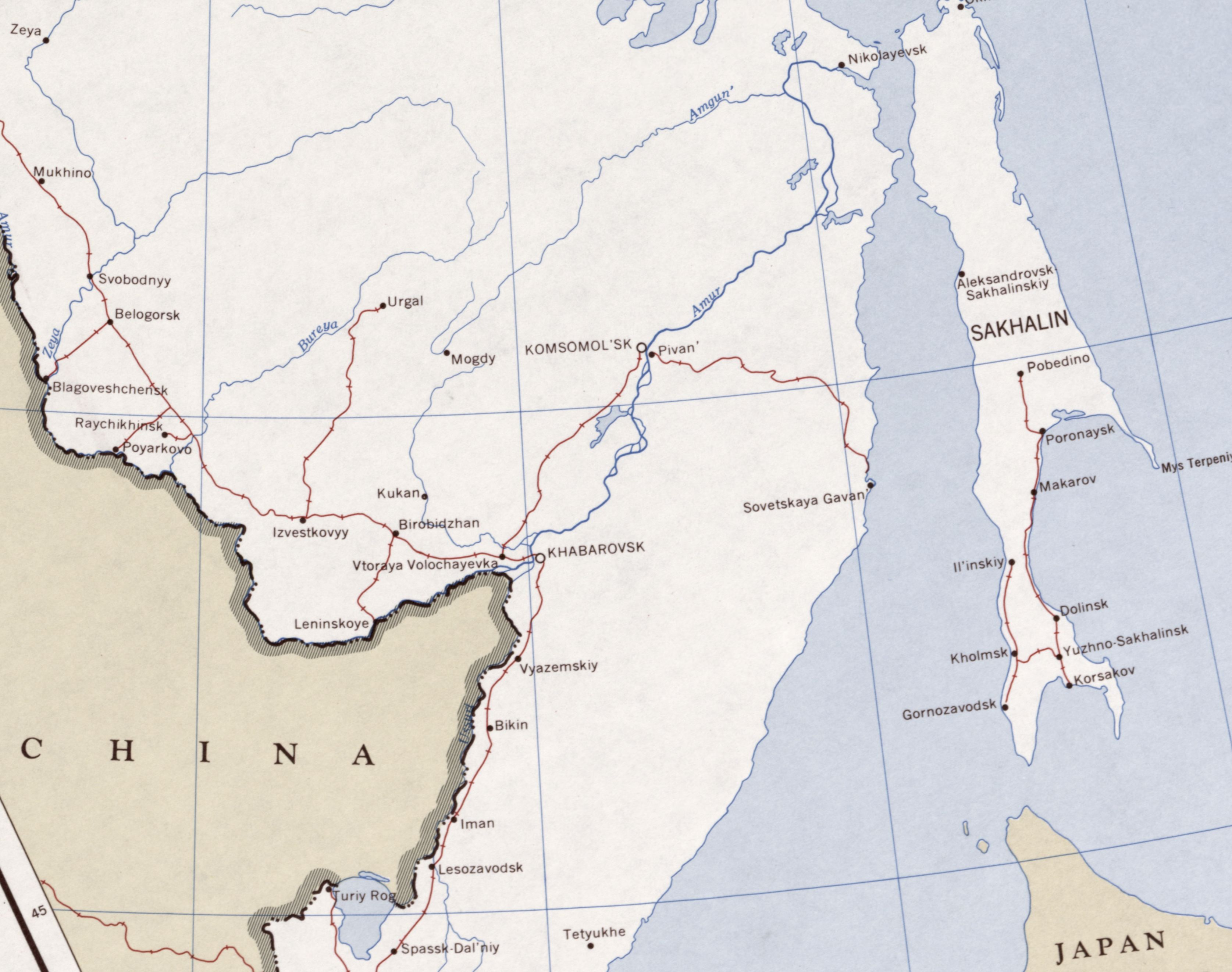 Dalnewostotschnaja schelesnaja doroga